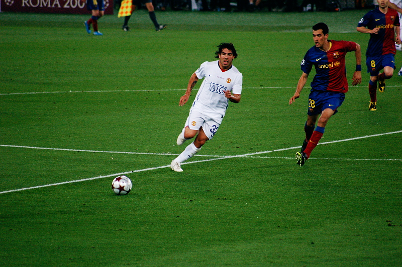 Carlos Tevez of Manchester United defended by Sergio Busquets of Barcelona